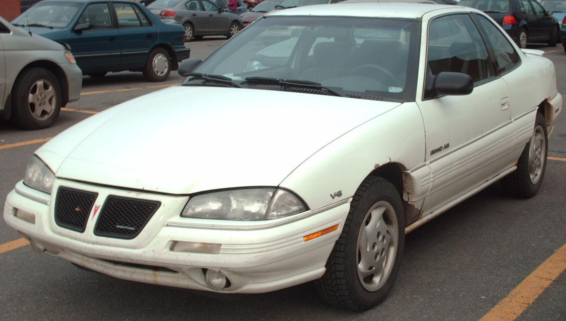 1993-1995 Pontiac Grand Am photographed in Montreal, Quebec, Canada.